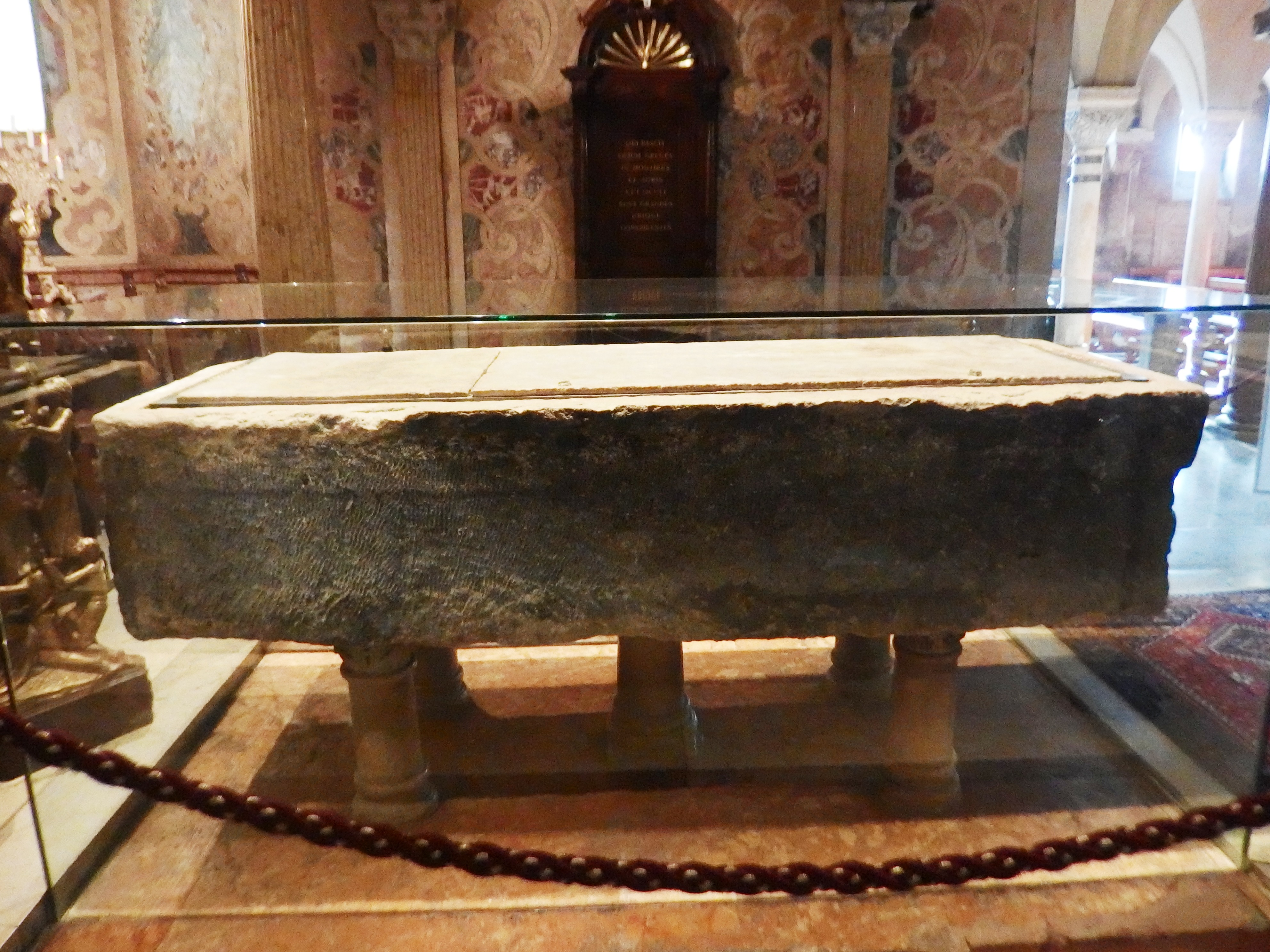 Modena, Italy. Cathedral, crypt.